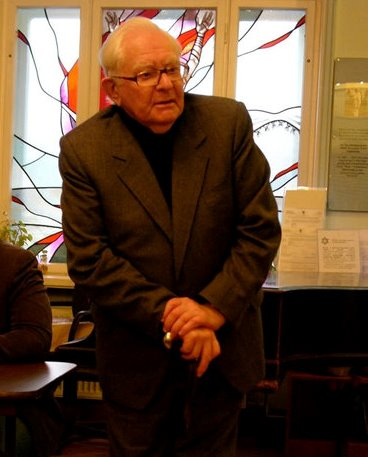 Margers Vestermanis in Museum "Jews in Latvia"